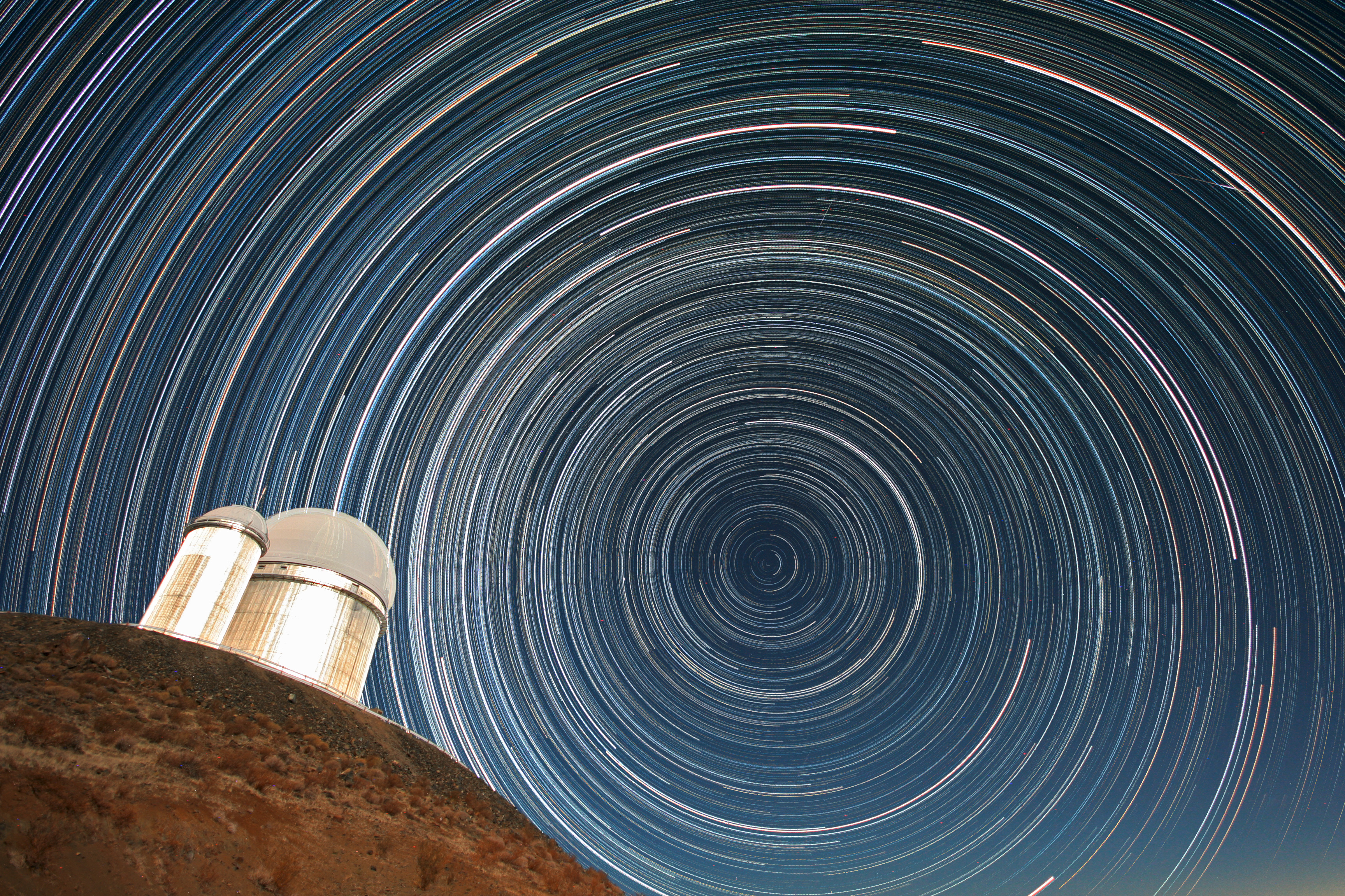 Star trails over the ESO 3.6-metre Telescope, which hosts HARPS, the High Accuracy Radial velocity Planet Searcher, the world's foremost exoplanet hunter. This image comes from Your ESO Pictures Flickr Group, where anyone can submit photos connected with ESO.